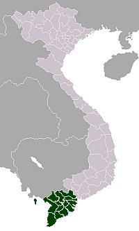 Mekong Delta Region map of Vietnam